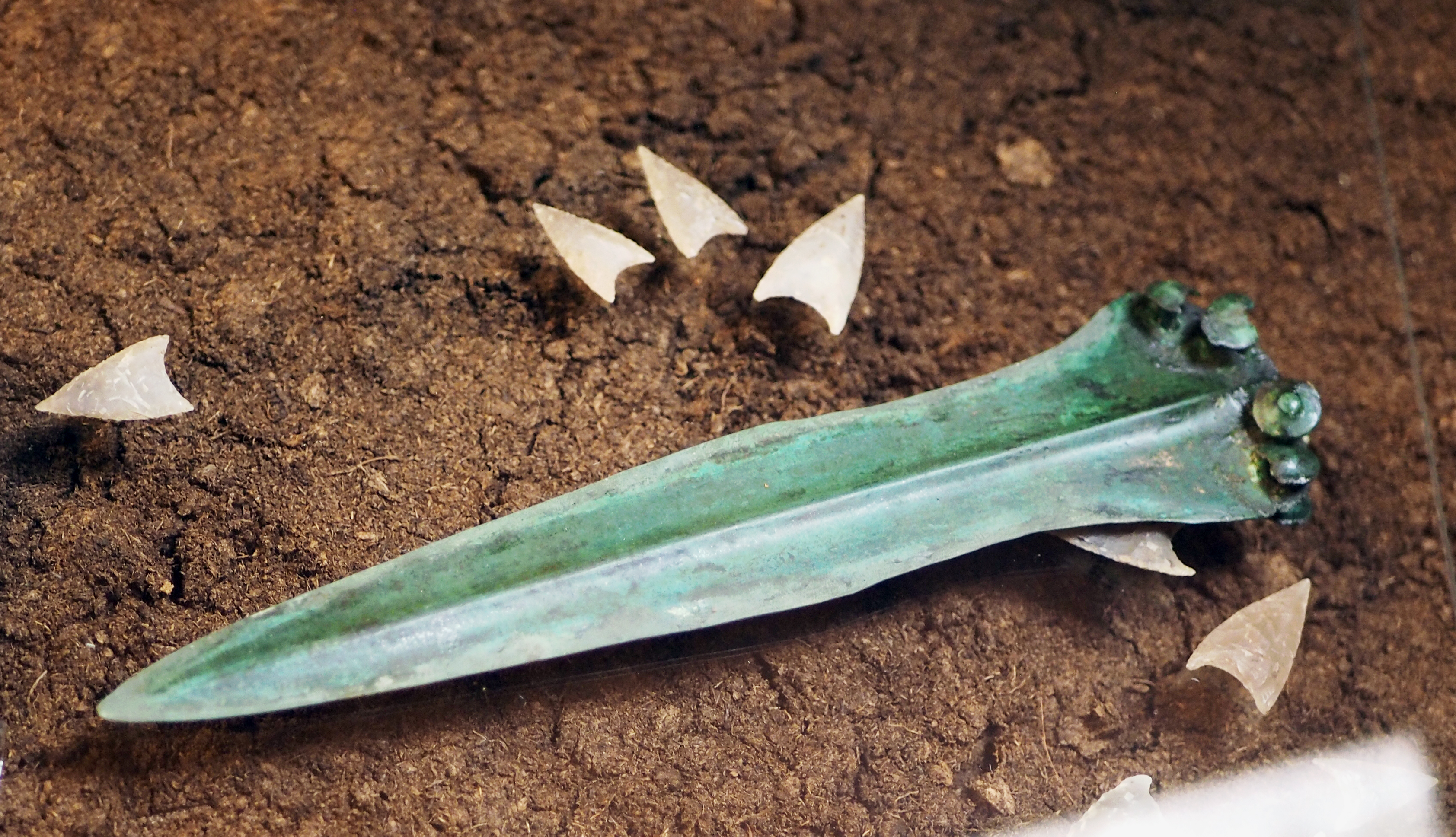 male grave gifts, early Bronze Age